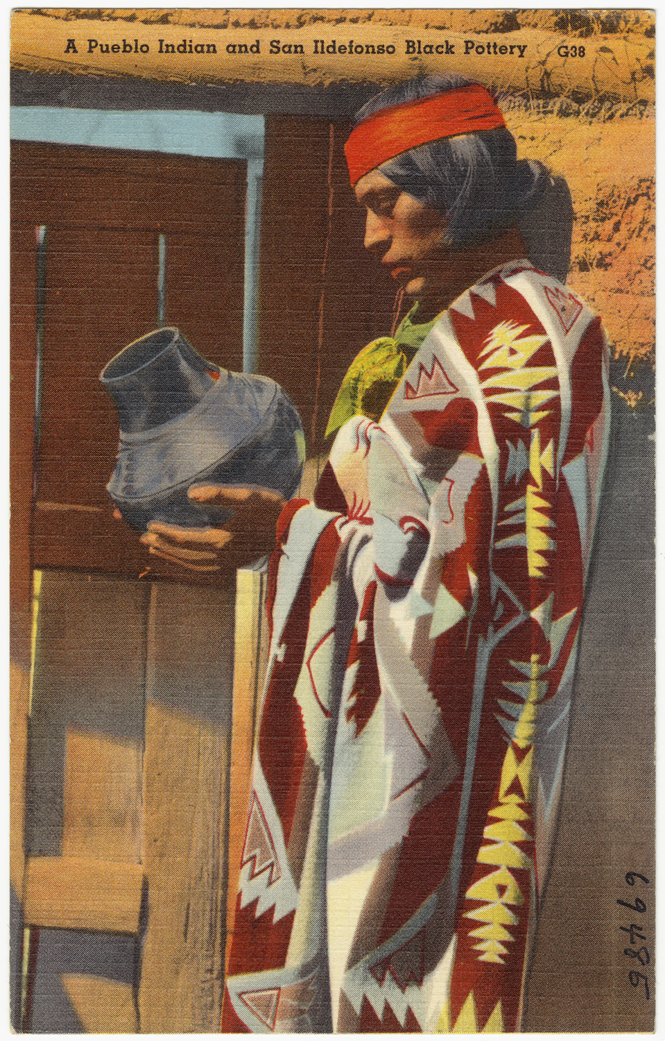 File name: 06_10_015536 Title: A Pueblo Indian and San Ildefonso Black Pottery Created/Published: Pub. by Southwest Arts & Crafts, Santa Fe, New Mexico; Tichnor Bros. Inc., Boston, Mass. Date issued: 1930 - 1945 (approximate) Physical description: 1 print (postcard) : linen texture, color ; 5 1/2 x 3 1/2 in. Genre: Postcards Notes: Collection: The Tichnor Brothers Collection Location: Boston Public Library, Print Department Rights: No known restrictions Flickr data on 2011-08-16: Camera: Epson Exp10000XL10000 Tags: postcard, tichnor brothers, New Mexico License: CC BY 2.0 User: Boston Public Library